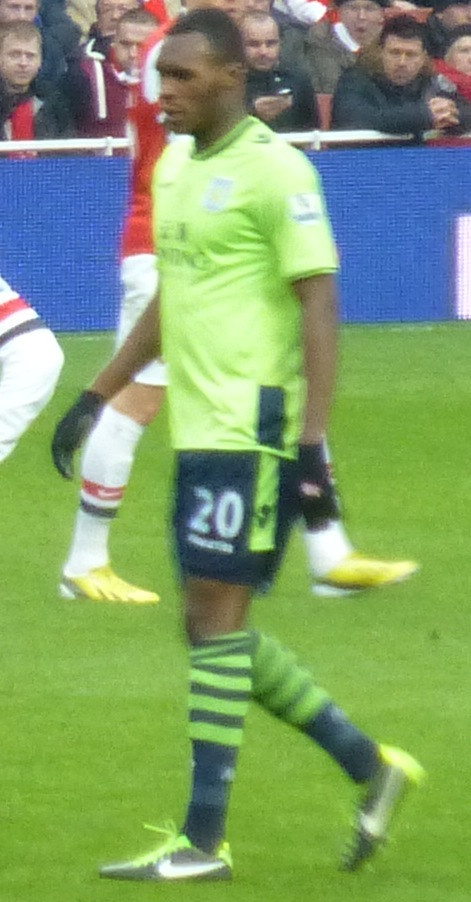 Christian Benteke with Aston Villa, February 2013